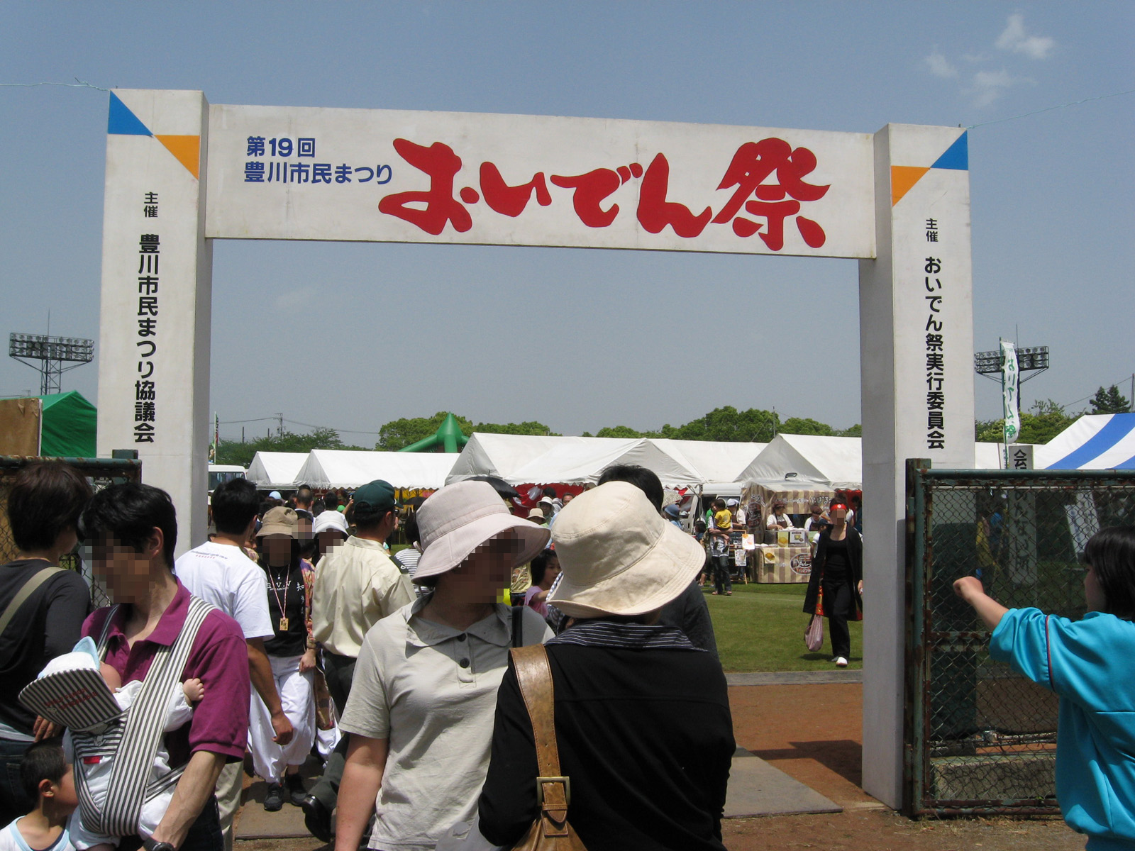 愛知県豊川市の「おいでん祭」のメイン会場入口 (The entrance to the main site of Oiden-sai festival in Toyokawa, Aichi, Japan)